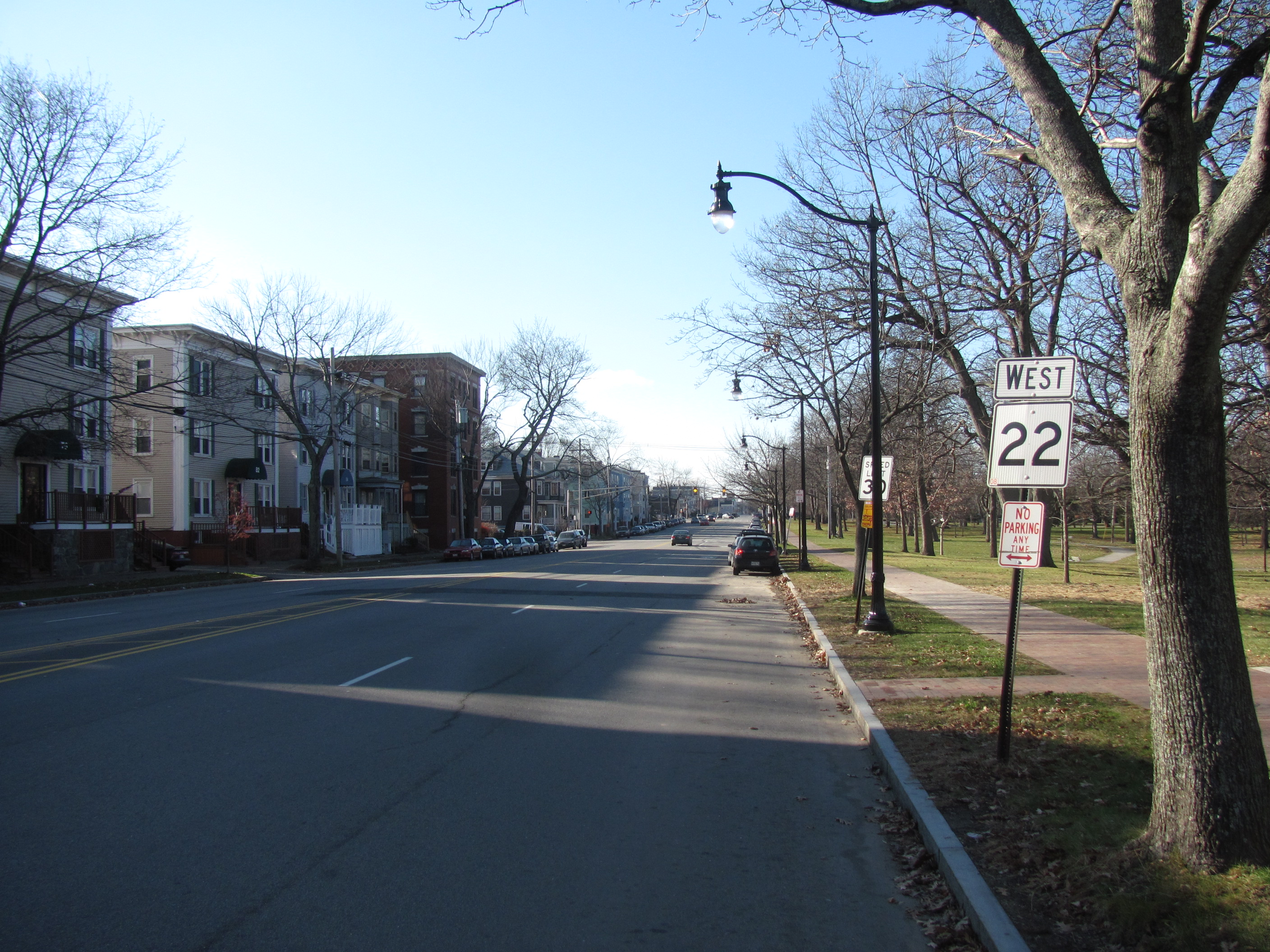 Route 22 southbound, Portland Maine